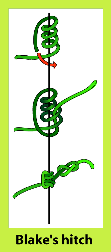 Blake's hitch shown with proper Figure-eight knot stopper knot -- rather than the malformed overhand shown in the original version. Changed file name from "Blacke's" as this was also incorrect.